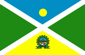 Flag of Xaxim, Brazil.